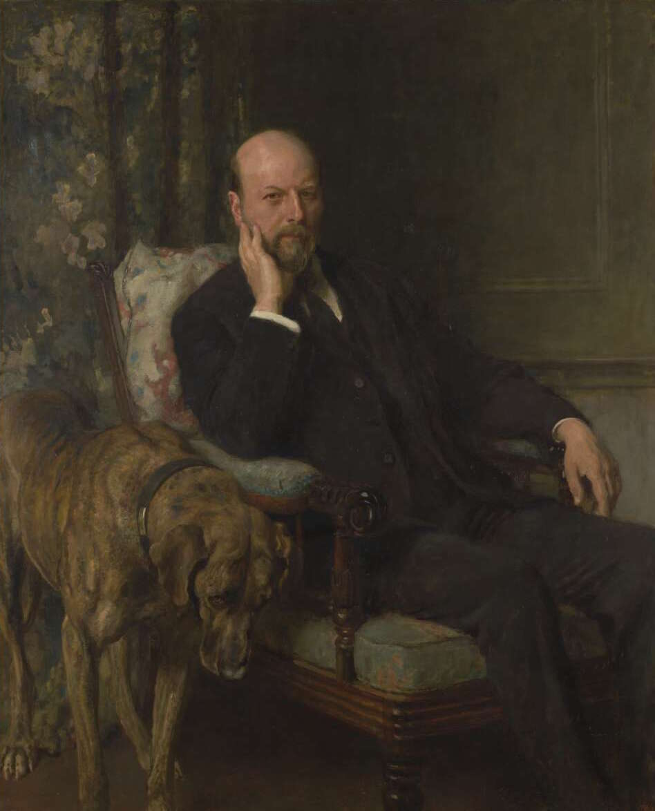 Hallam Tennyson, 2nd Baron Tennyson